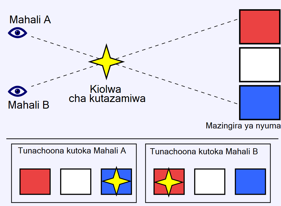 An image showing an example of parallax Kiswahili: Picha inaonyesha mfano wa paralaksi